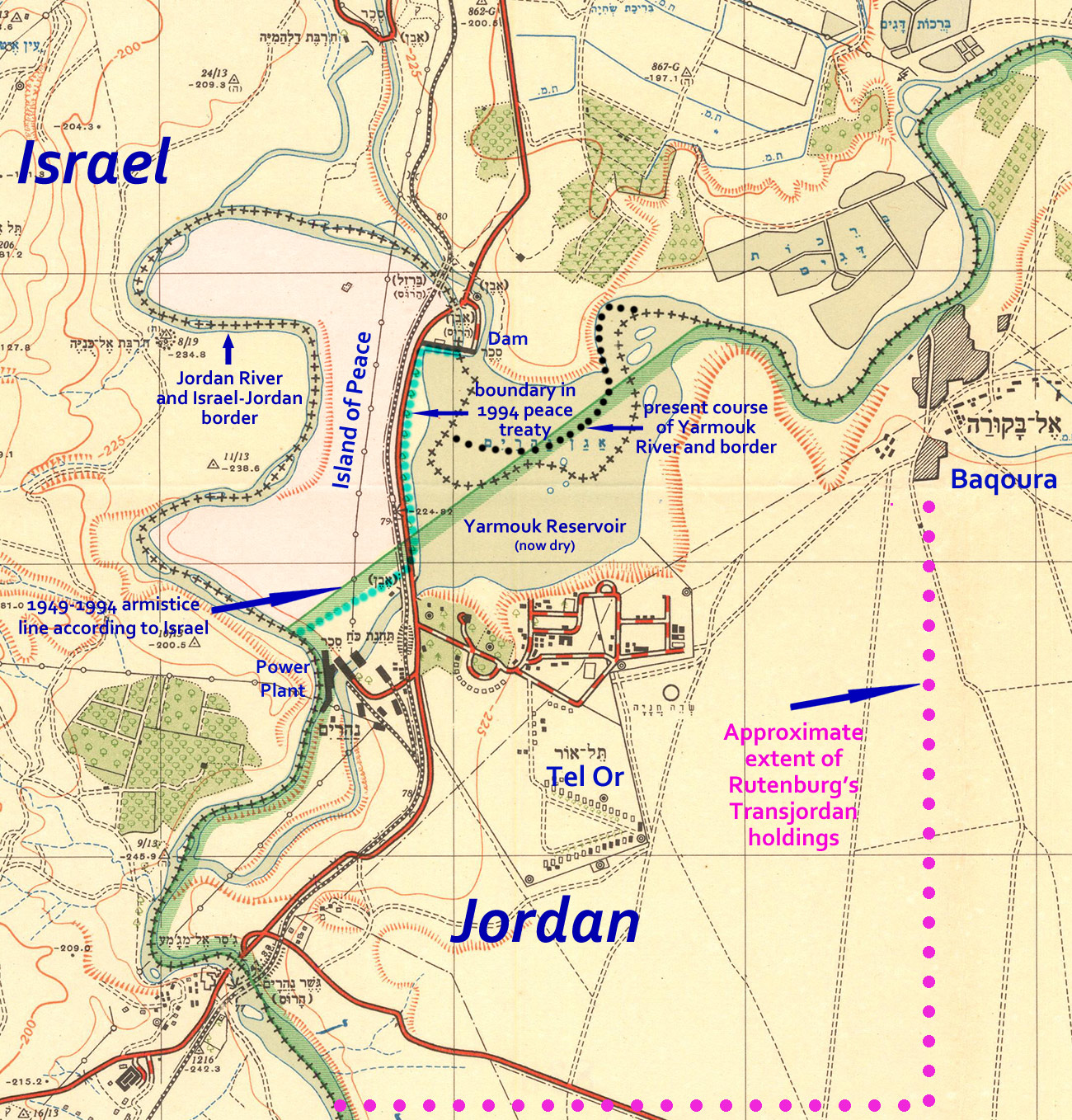 This map shows the Naharayim/Bequra region at the confluence of the Jordan and Yarmuk Rivers. Israel lies to the West and North, while Jordan lies to the Southeast. The base map is a 1:20,000 map by the Survey of Israel (1953). Also shown is the region (now called Peace Island) that was accorded special treatment by the 1994 Israel-Jordan peace treaty, taken from the map in Appendix IV of that treaty.